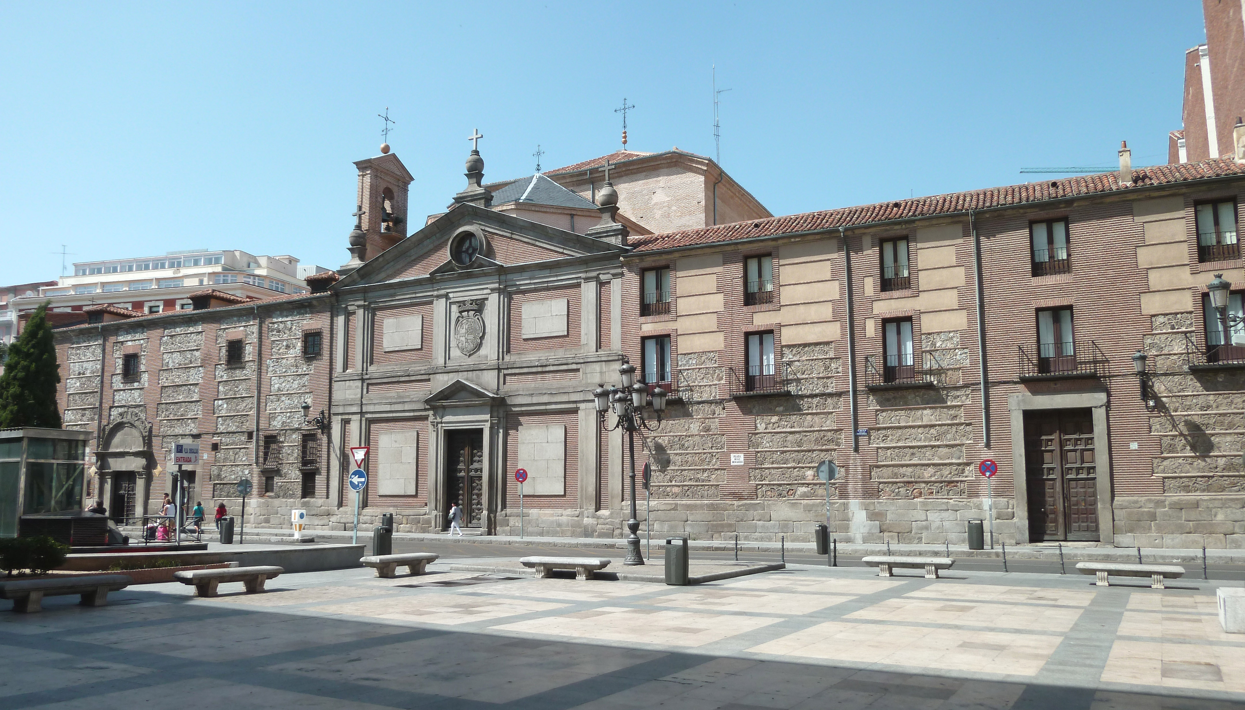 Main façade of Monasterio de las Descalzas Reales, a convent at Plaza de las Descalzas (square) in Madrid (Spain).